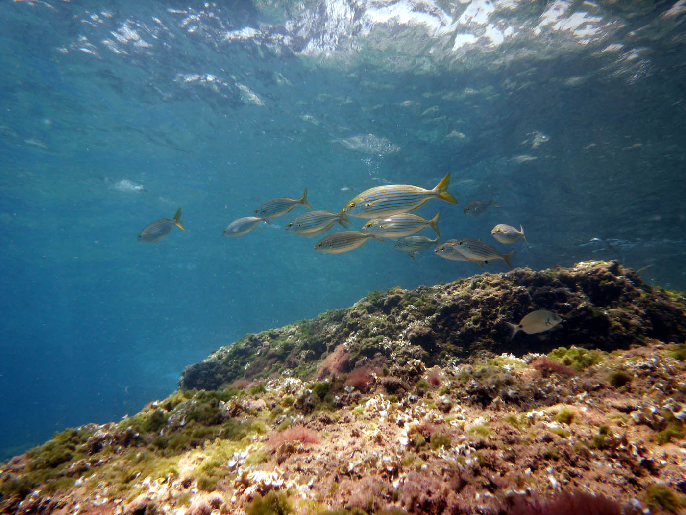 School of Sarpa Salpa in El Portús (Cartagena, Spain)